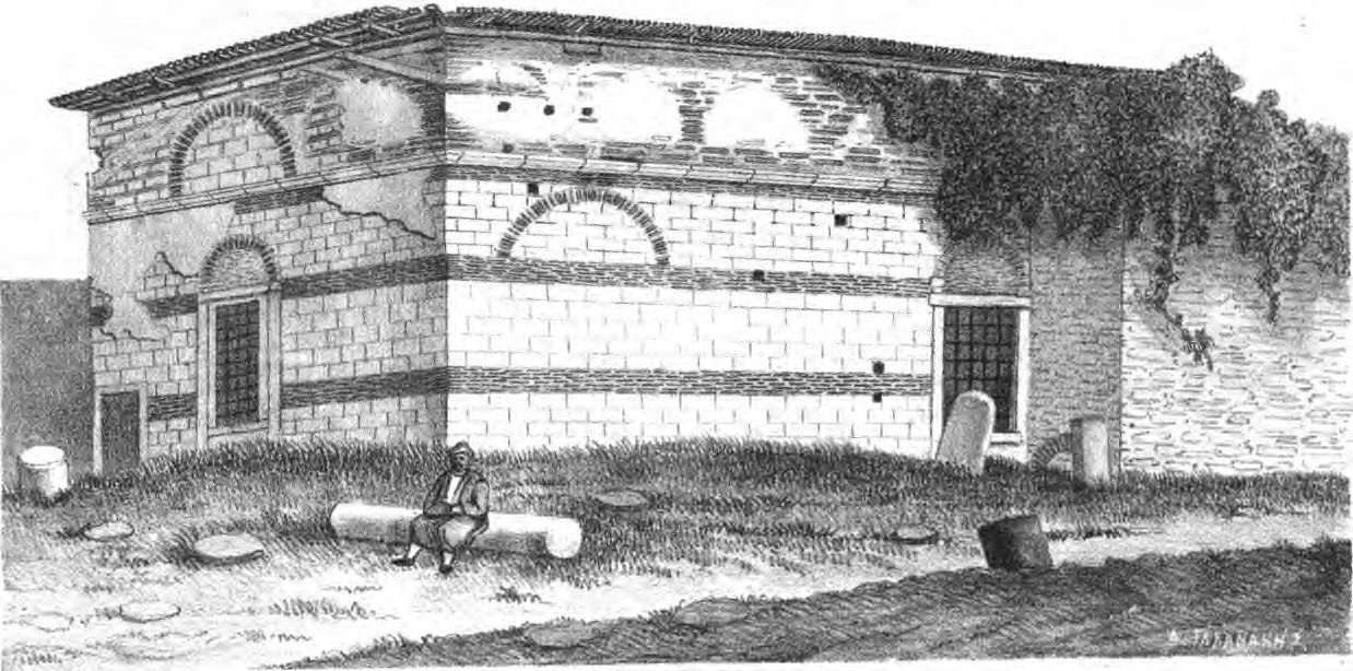 The Manastır Mescidi ("Monastery Mosque"), converted from an unidentified Byzantine monastery chapel and located near the Gate of St. Romanus, in Istanbul, Turkey. From G. Paspates' Byzantinai meletai topographikai (1877) Author: Paspatēs, Alexandros Geōrgiou, 1814-1891. [from old catalog] Subject: Inscriptions, Greek Year: 1877 Possible copyright status: NOT_IN_COPYRIGHT Language: English Digitizing sponsor: Google Book contributor: Oxford University Collection: europeanlibraries